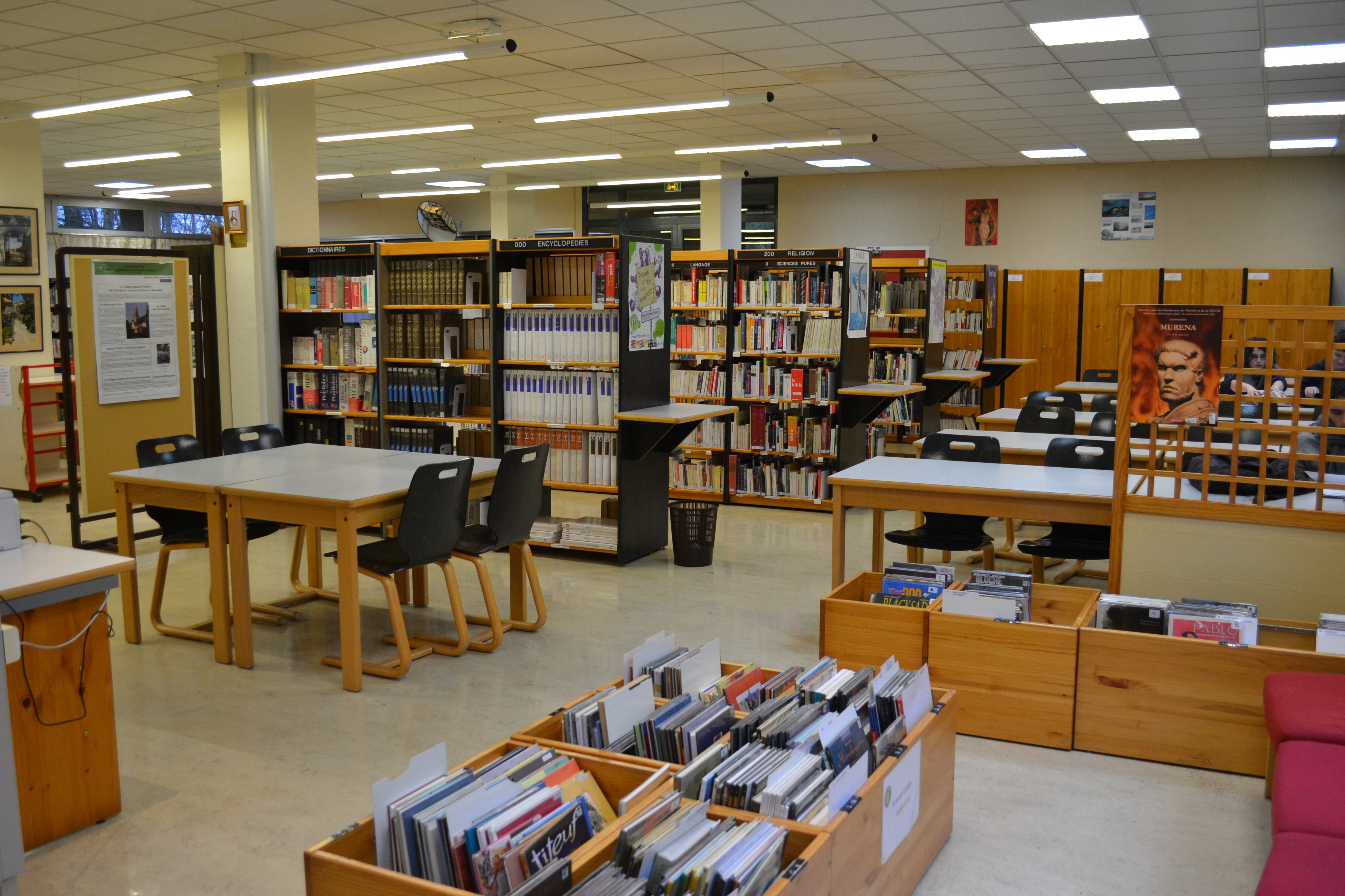 Vue de la salle de lecture du Centre de Documentation (CDI) du Lycée Augustin-Thierry (Blois) en 2013